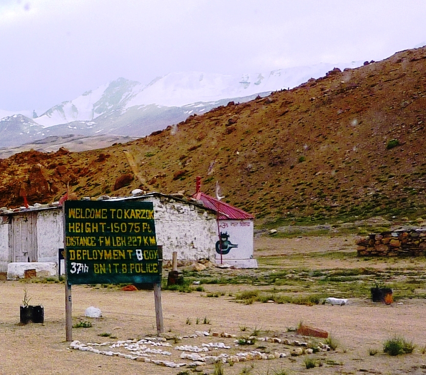 I took this photo on a visit in 2010